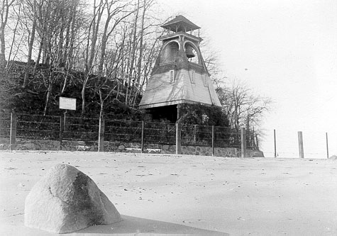 THE 1889 WHITESTONE POINT LIGHT; Caption: "Whitestone Point [;] 225 ft. Southwest."; 30 November 1915; No photo number; photo by "Yates."; public domain. From the [1], a U.S. governmental web site.